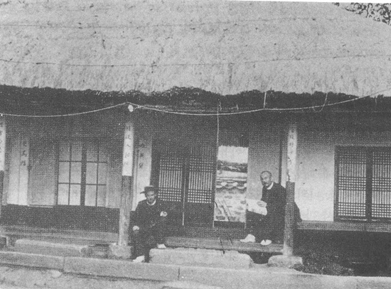 Official residence of the foreign trainers of the Korean Imperial Naval Academy.